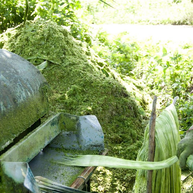 Making Piñatex, decorticating pineapple leaves